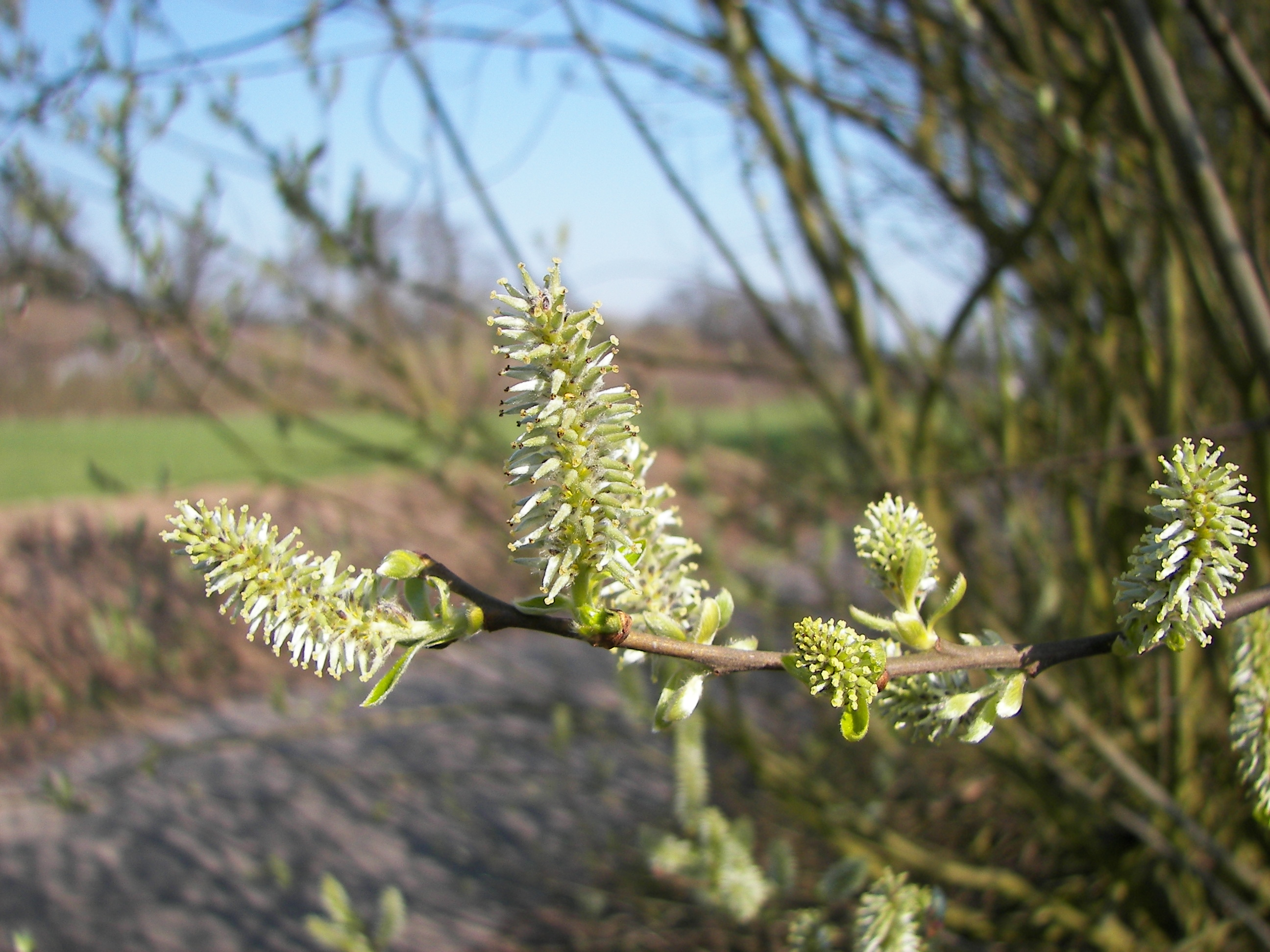 Goat Willow (Salix caprea), female catkins